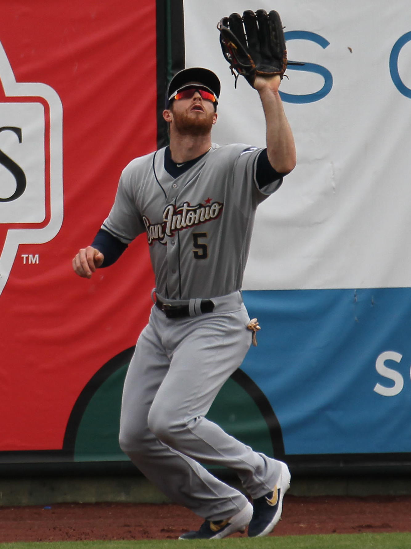 Cory Spangenberg of the San Antonio Missions attempts to catch a fly ball during a 2019 game at Werner Park in Nebraska